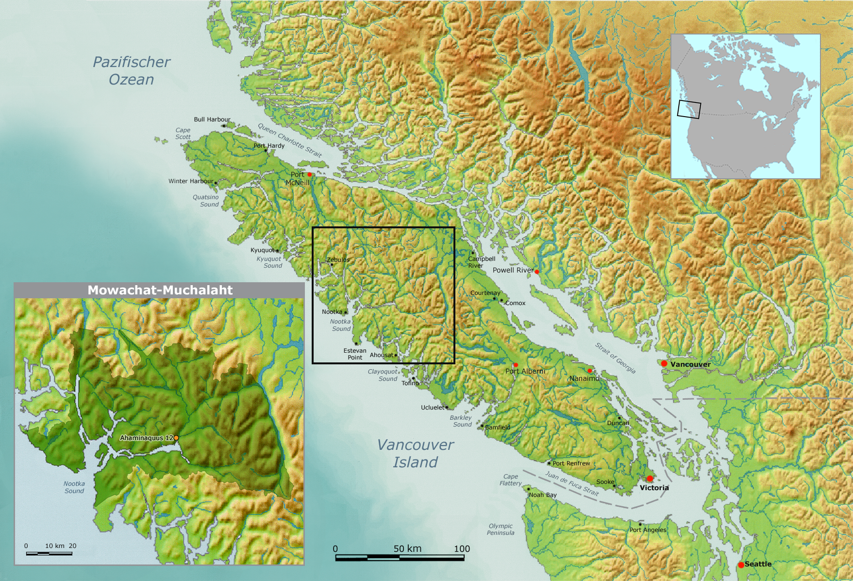 Map of Mowachaht-Muchalaht tribal territory